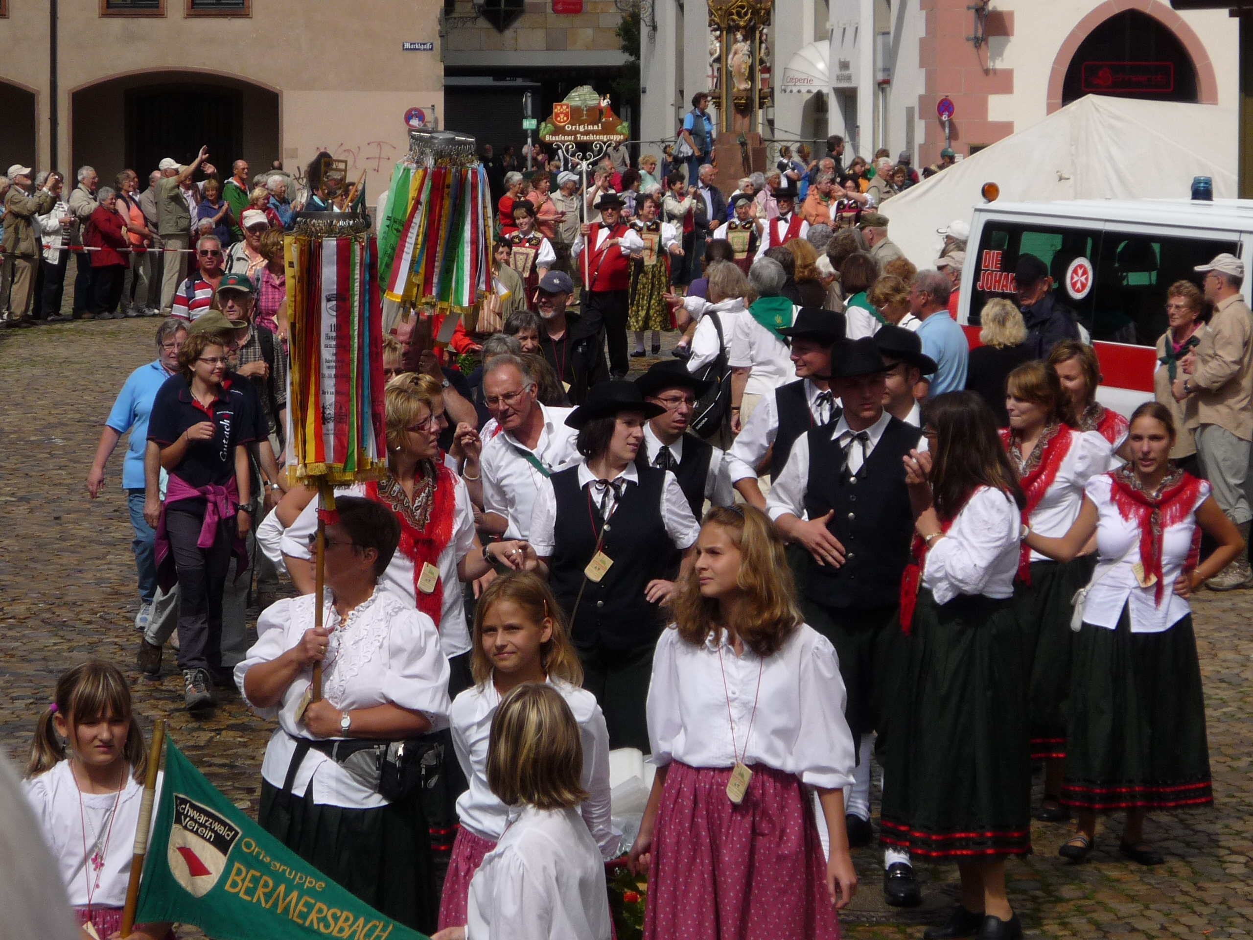 Pageant at Deutscher Wandertag 2010 in Freiburg